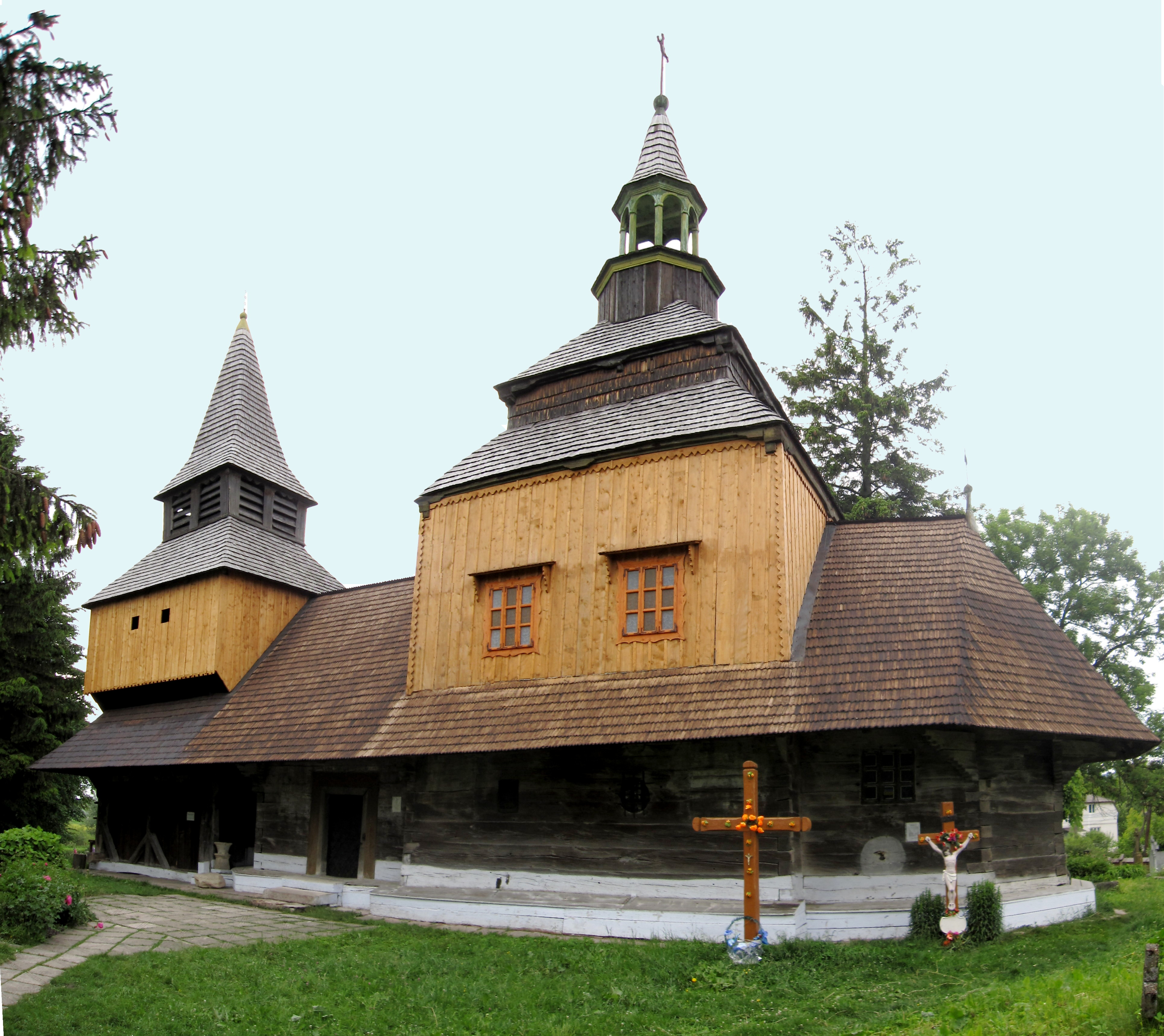 Rohatyn.